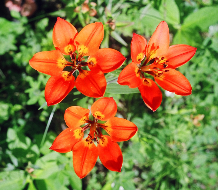 The western wood lily (Lilium philadelphicum) is found on south-facing montane slopes and open temperate-zone aspen parkland. This large, very showy orange flower opens upward, displaying black-ended stamens and black dots on the inner part of the petals. It is a protected plant in Canada, but because of its beauty, it is a target for uneducated pickers. Unfortunately, this kills the plant, which is unable to produce two sets of leaves in a summer. It is commonly but incorrectly known as the "tiger lily," to which it bears little resemblance. The western wood lily is the provincial flower of Saskatchewan, Canada, and blooms from June to August. Ø2004 D. Windrim Captioned As { }